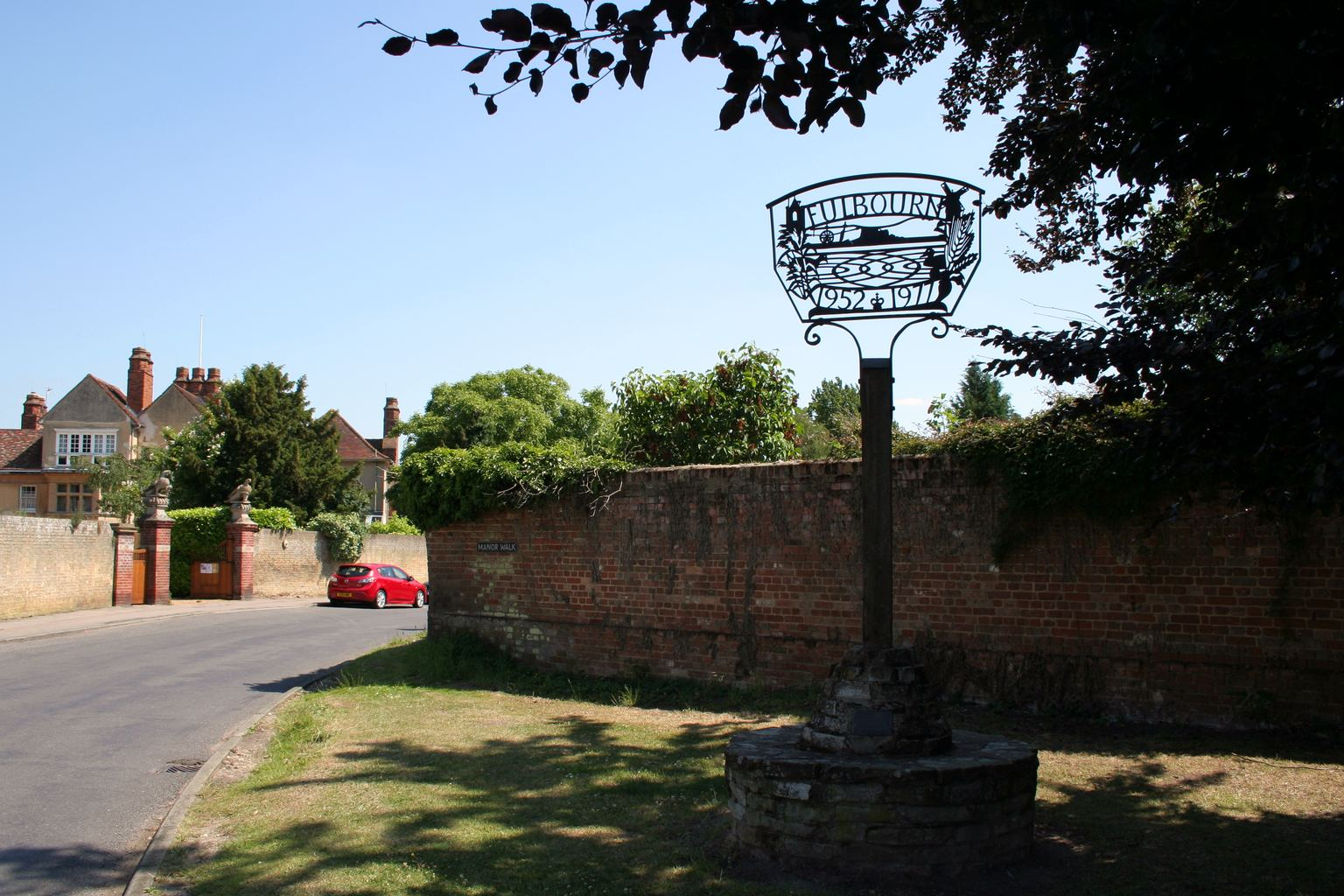 Fulbourn village sign in July 2013.